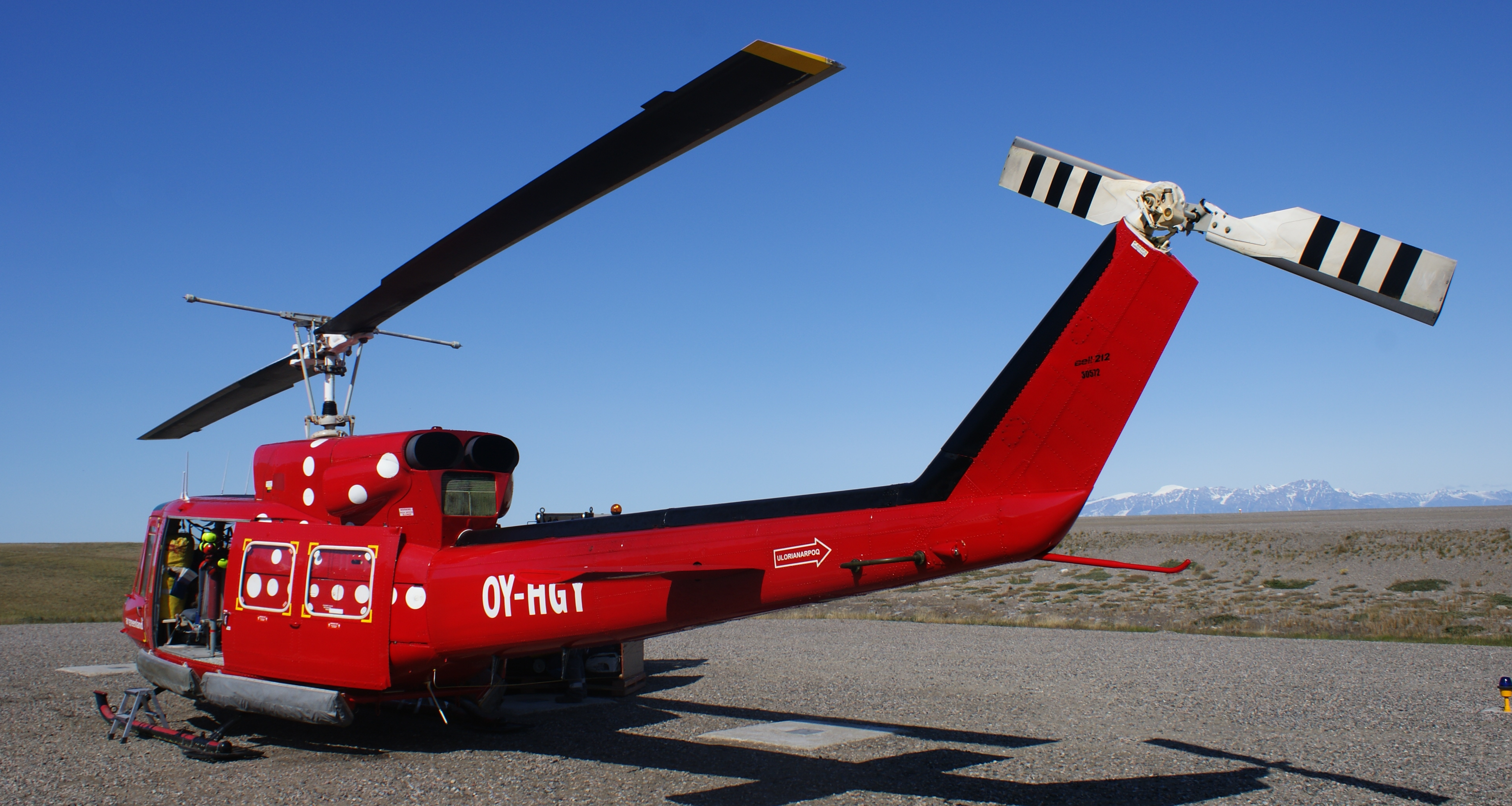 Air Greenland Bell 212 at Qaarsut Airport, Greenland.